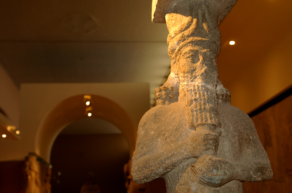 Exhibits in the National Museum. Oct. 31, 2007